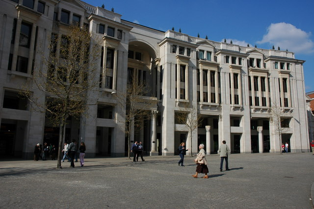 Juxon House Juxon House is situated on the northern side of St Paul's Churchyard.